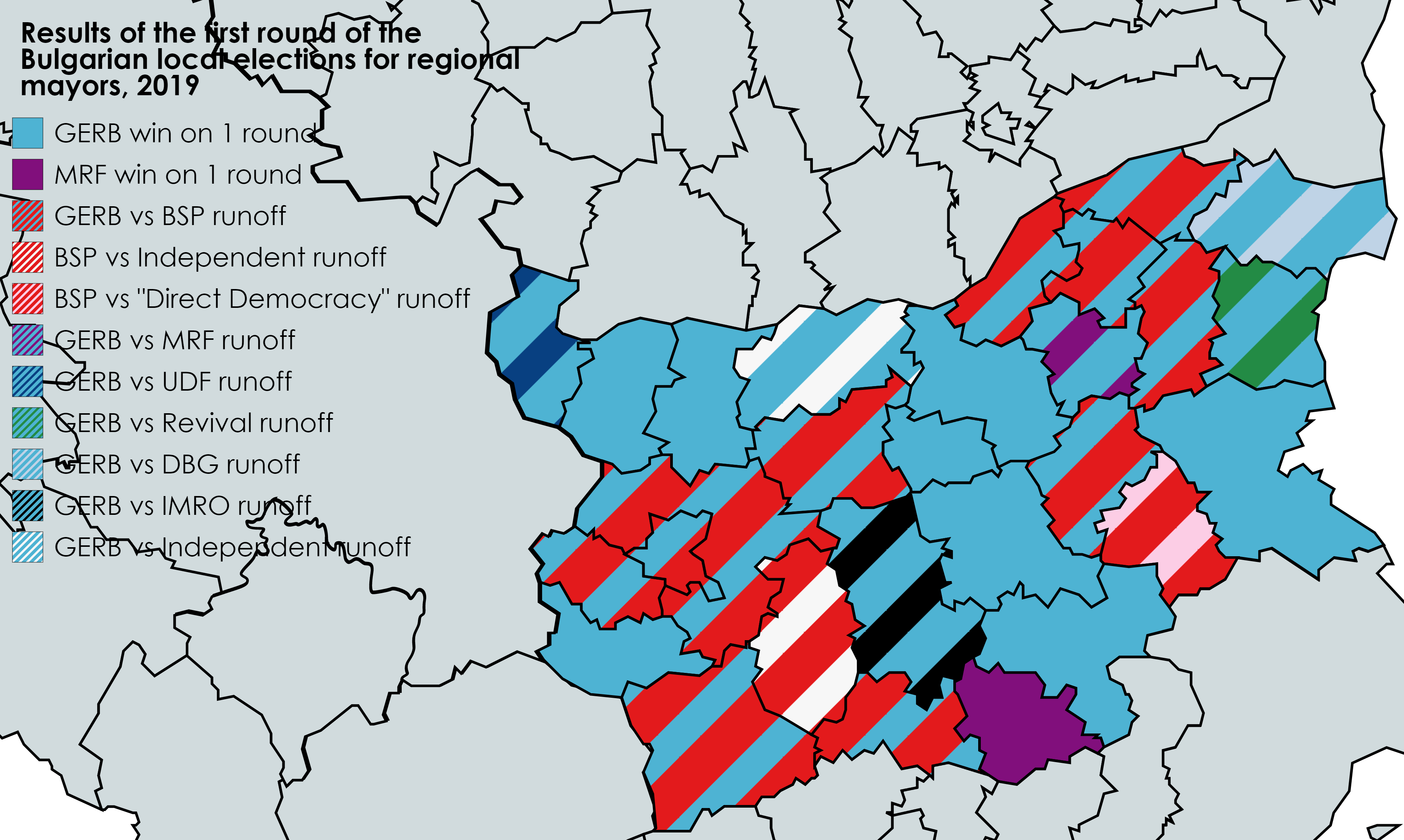 A map depicting the results of the first round of the Bulgarian local elections in 2019